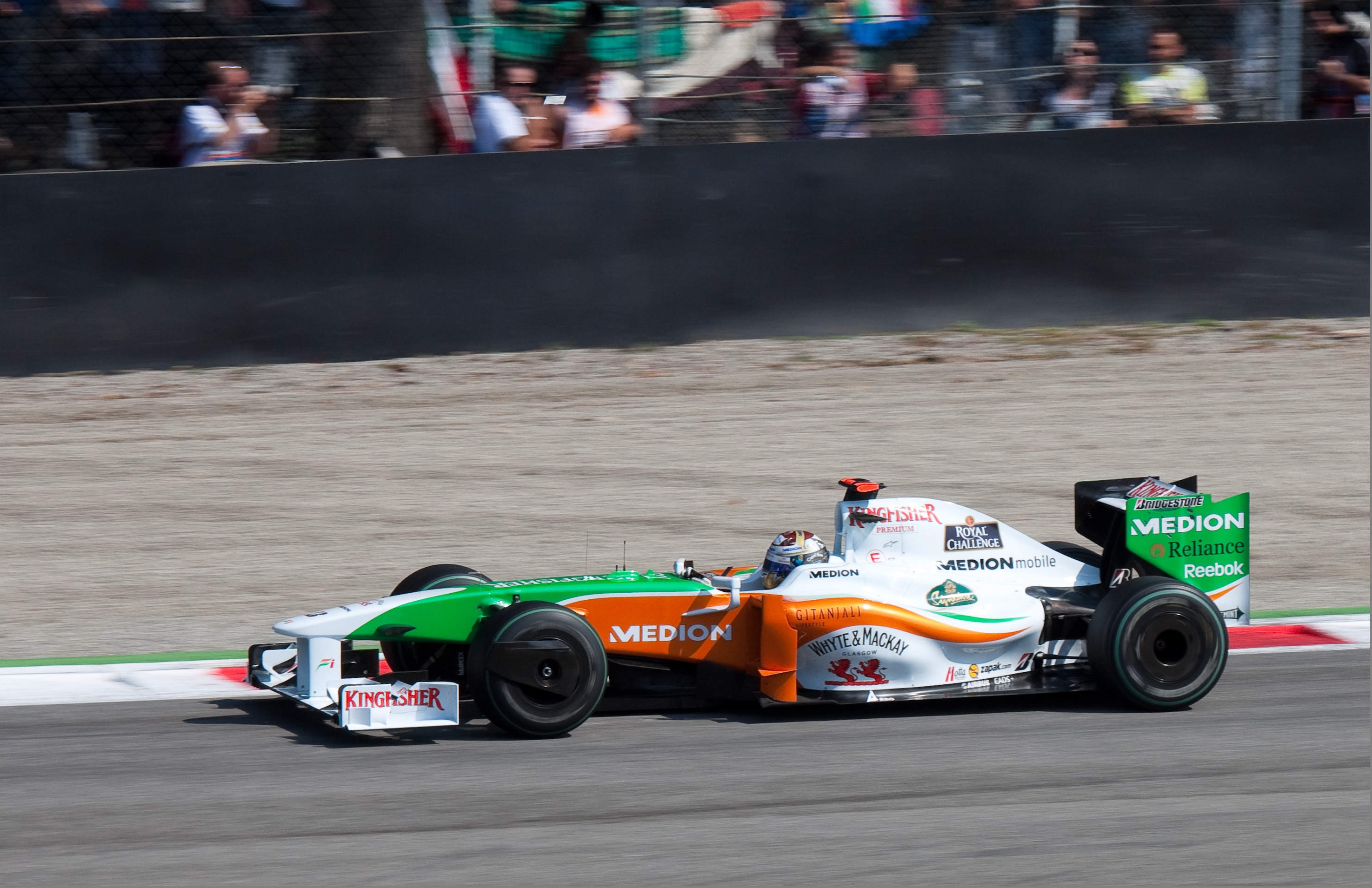 Adrian Sutil driving for Force India at the 2009 Italian Grand Prix.